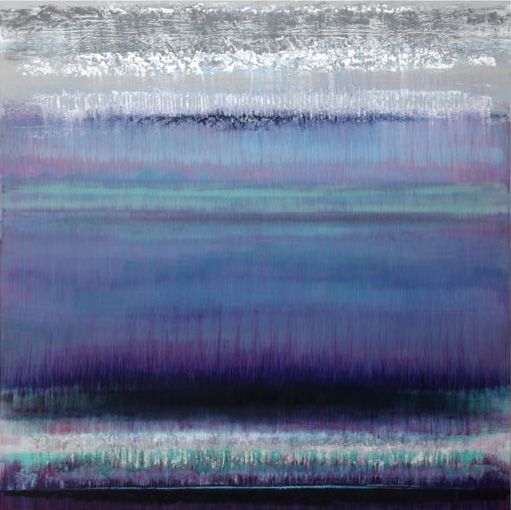 abstract landscape 3